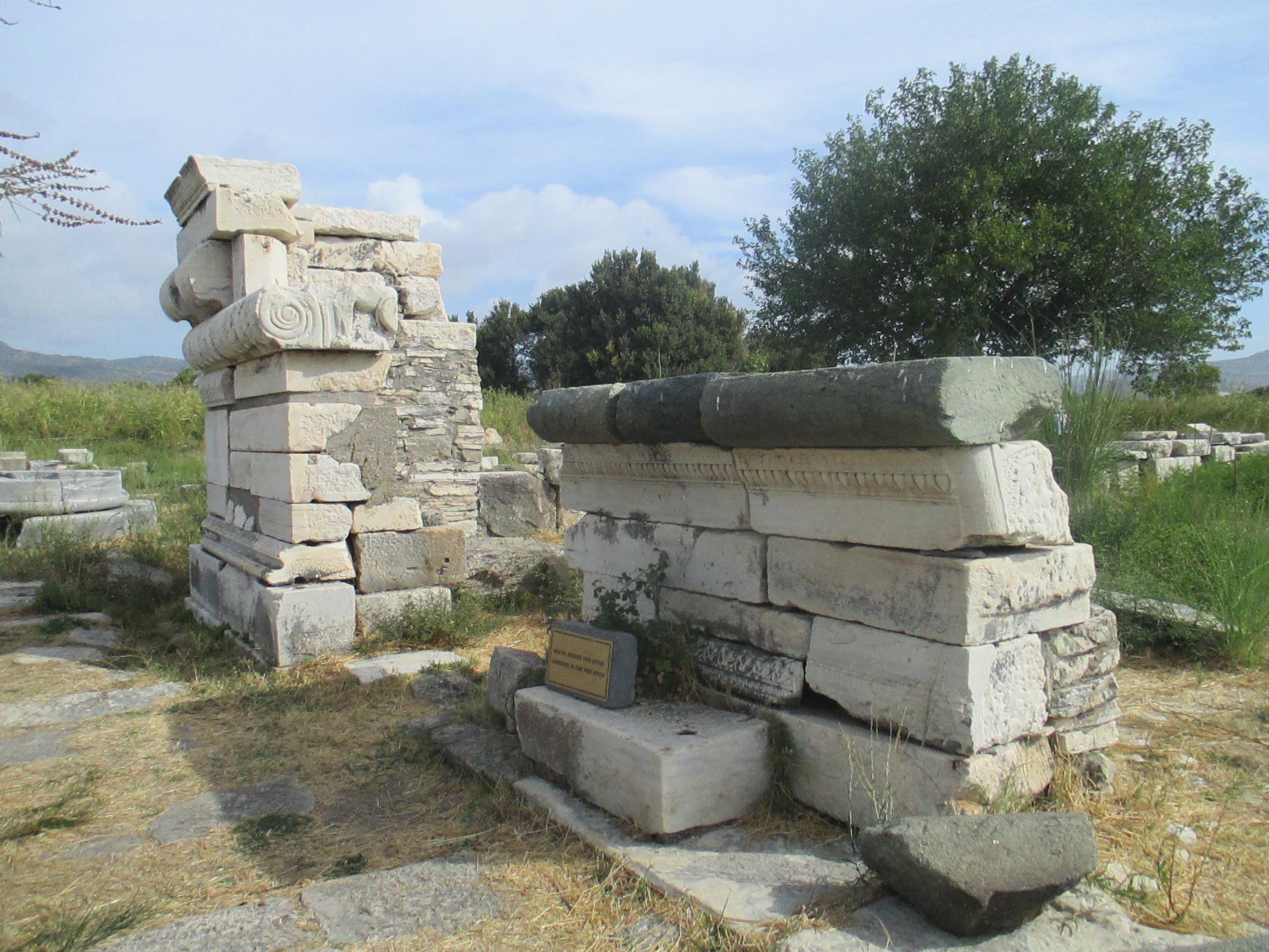 Heraion of Samos. Part of the altar structures.